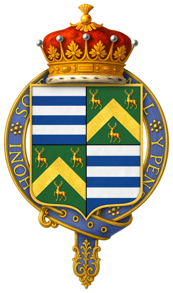 Shield of arms of Thomas de Grey, 2nd Earl de Grey, KG, PC, FRS. Grey quartering: Vert, a chevron between three bucks standing at gaze or (Robinson (Robinson baronets of Newby, cr.1660))